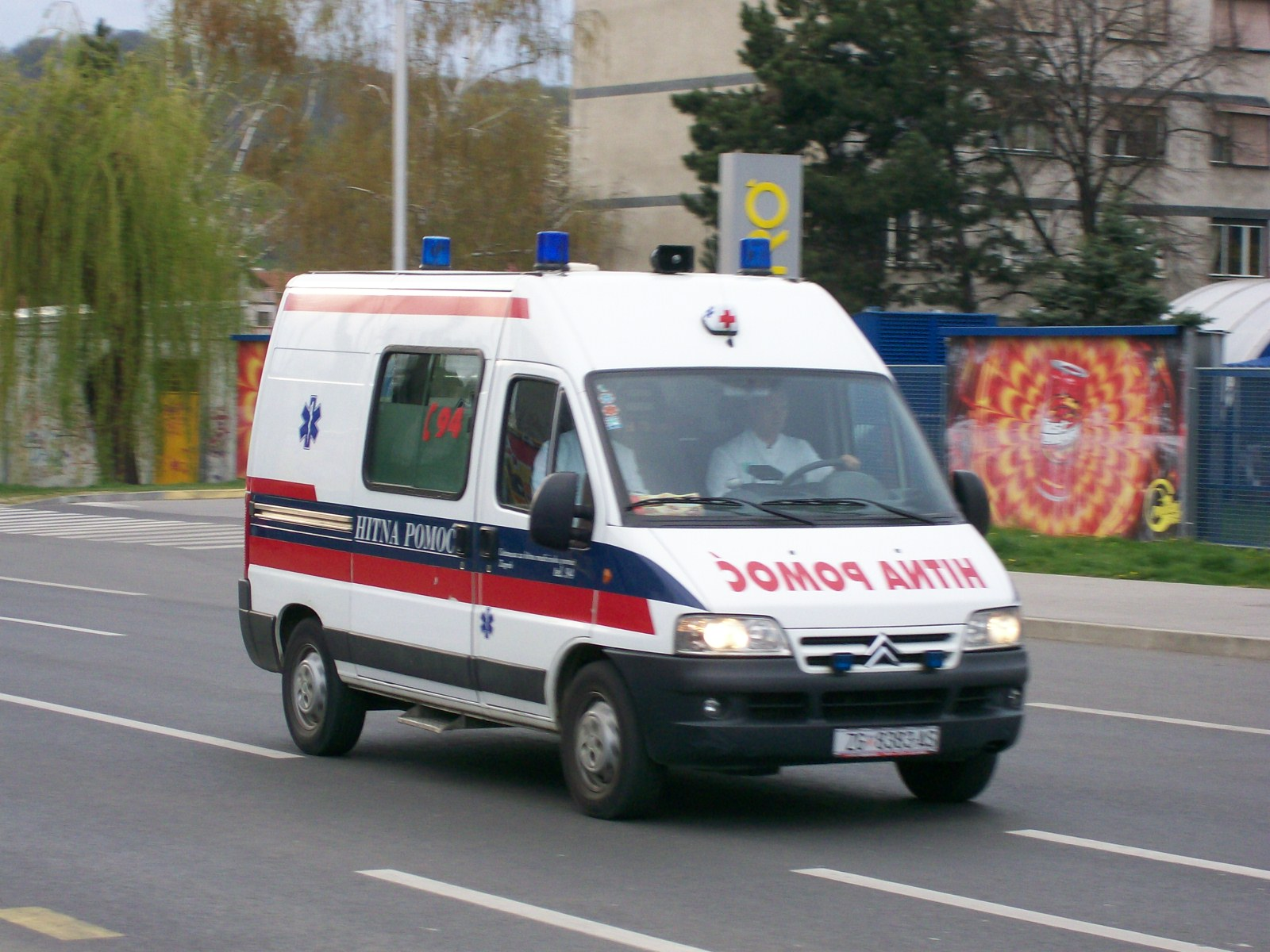 Ambulance in Zagreb, with "HITNA POMOC" in mirror writing ("COMOP ANTIH")